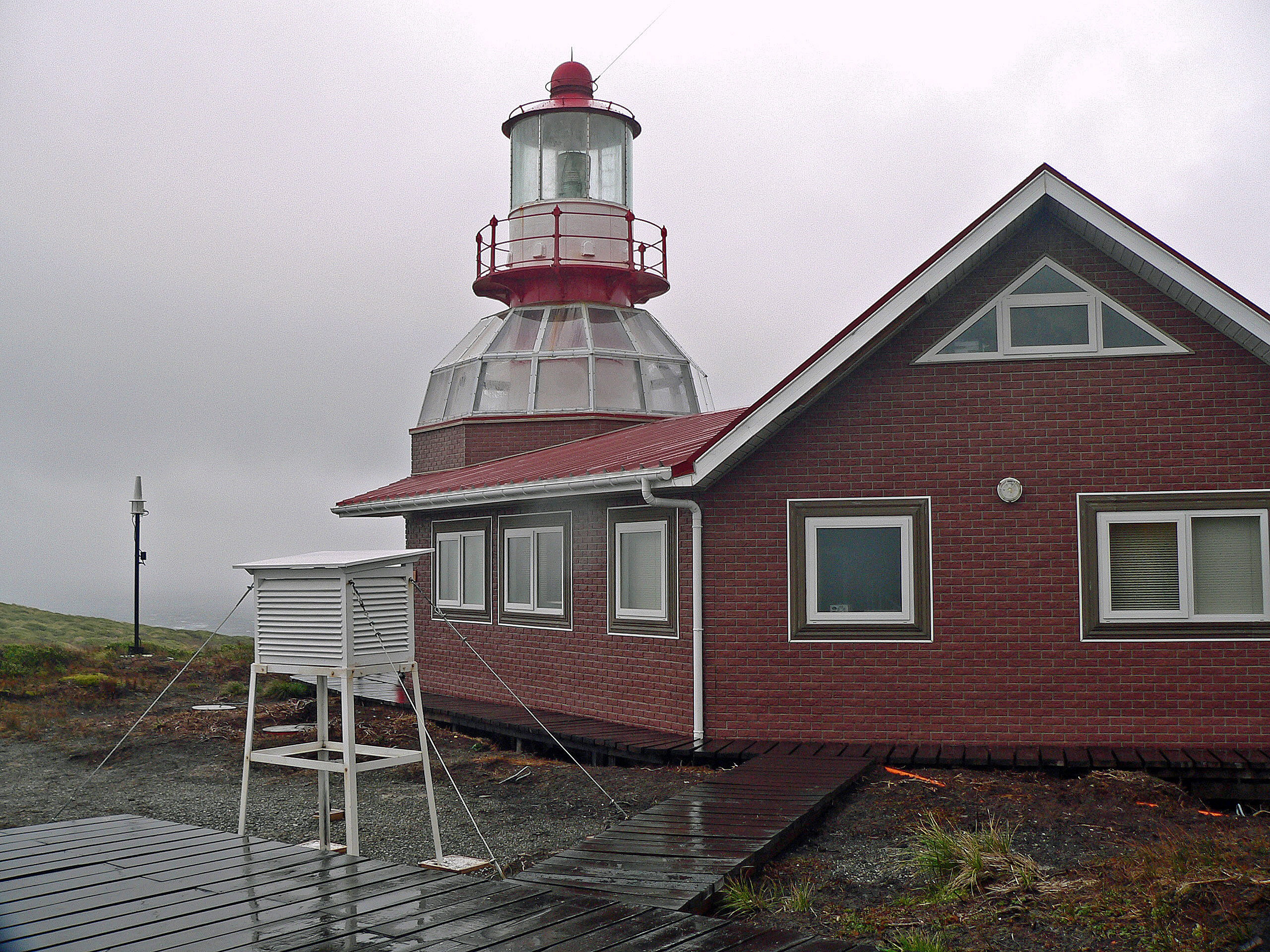 Cape Horn lighthouse